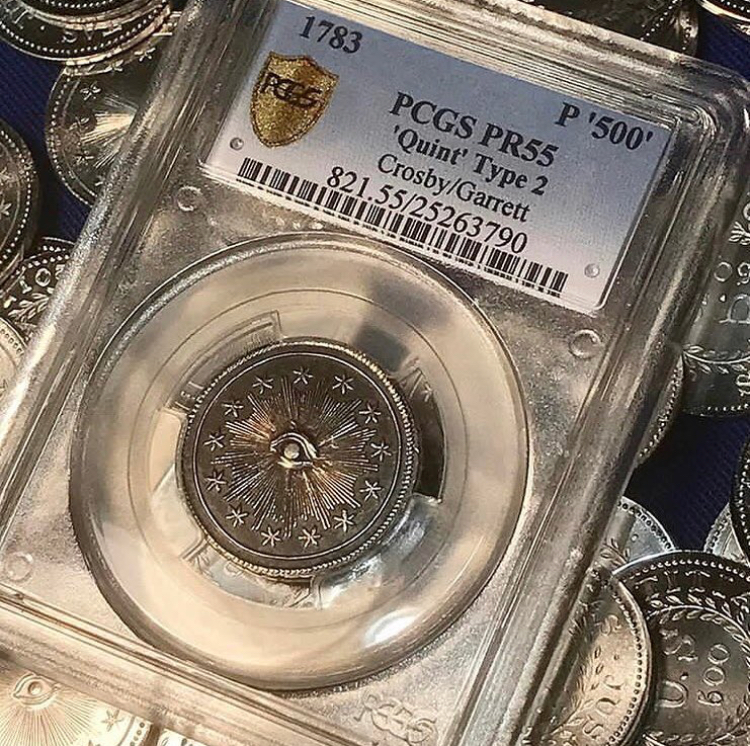 The Unique Plain Obverse Nova Constellatio Quint